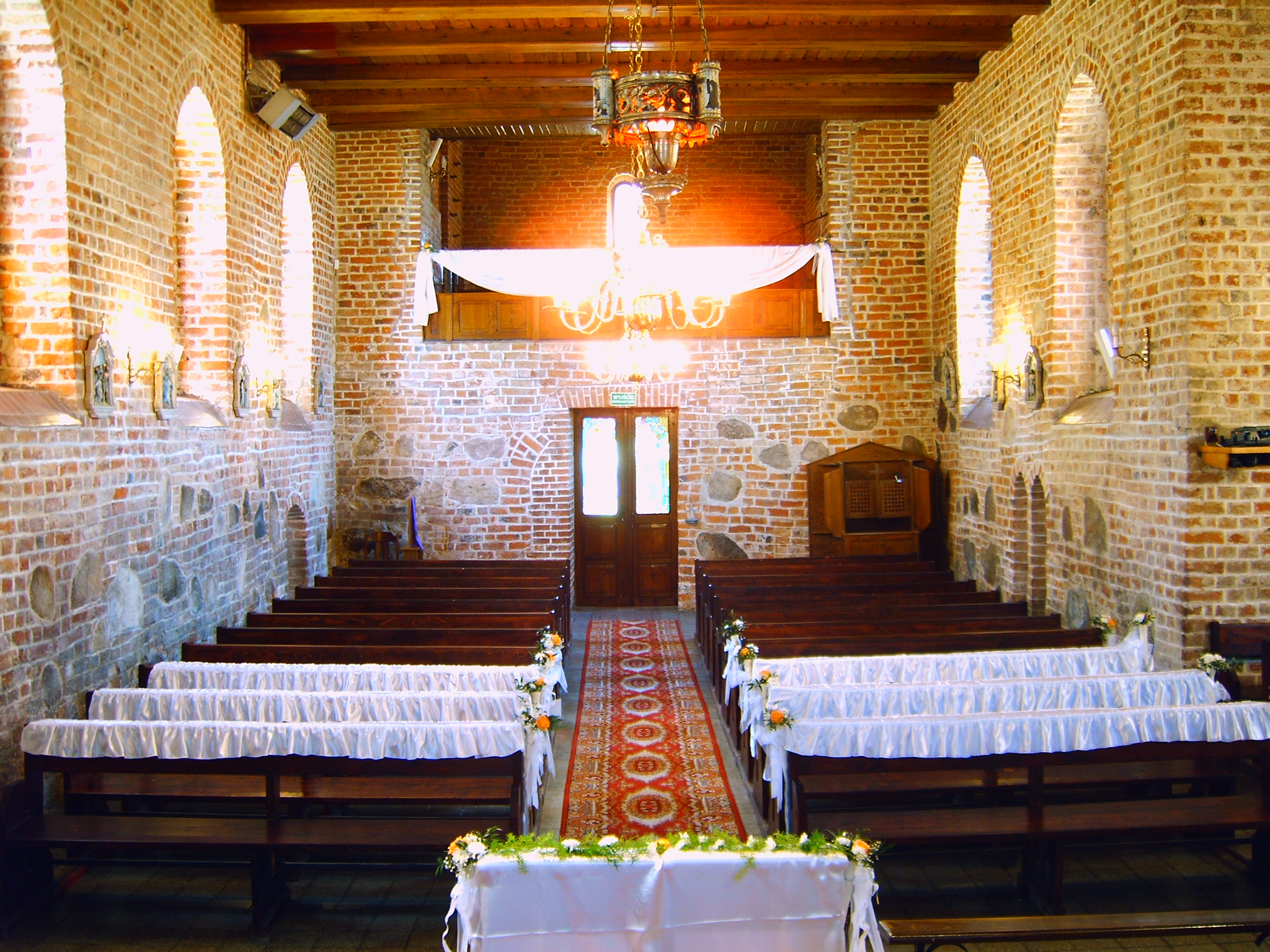 Poland, Mielno, church, nave